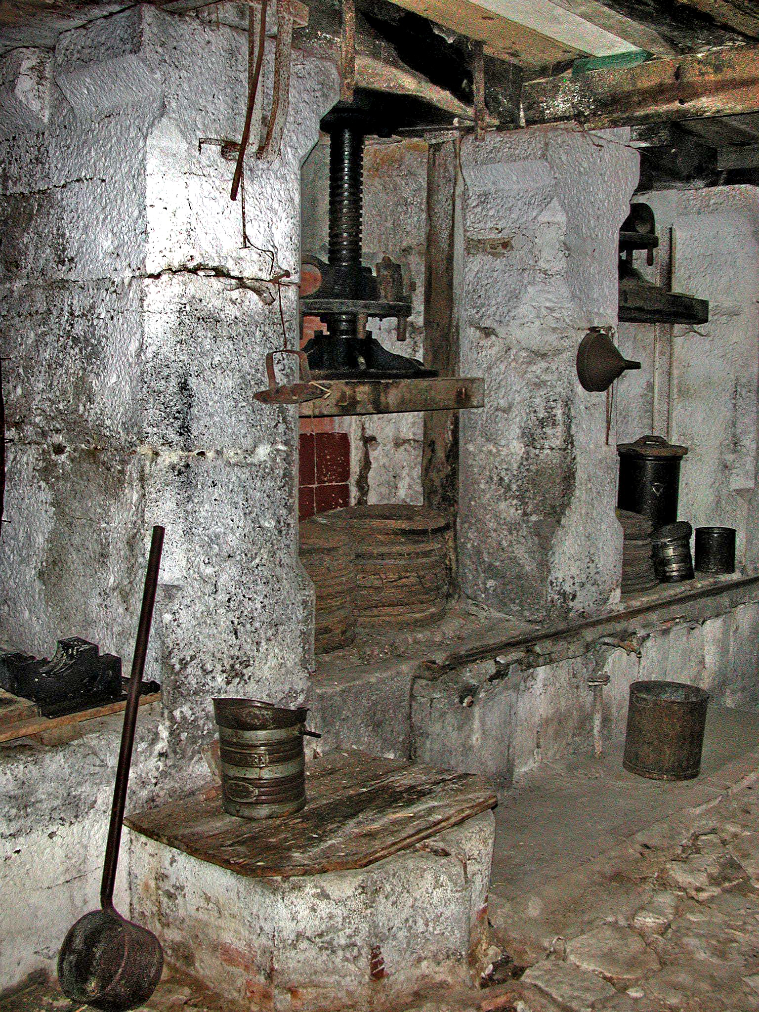 Mons(Var) old watermills (Lambert's mills) corn, olive fuller, on Siagnole river: olives screw press